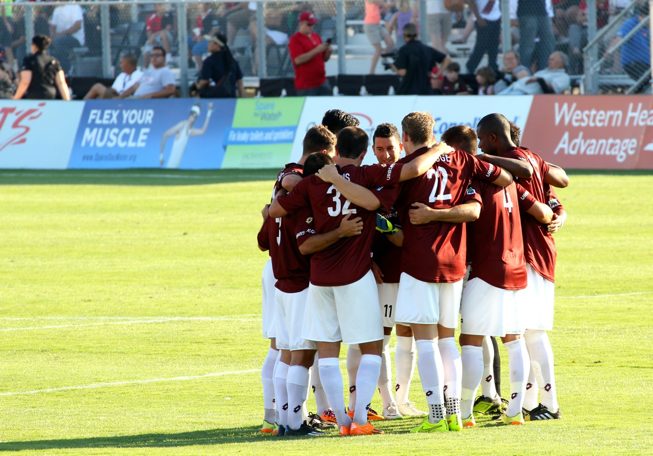 Sac Republic huddle prior to the second half of a friendly match against Atlas of Mexico